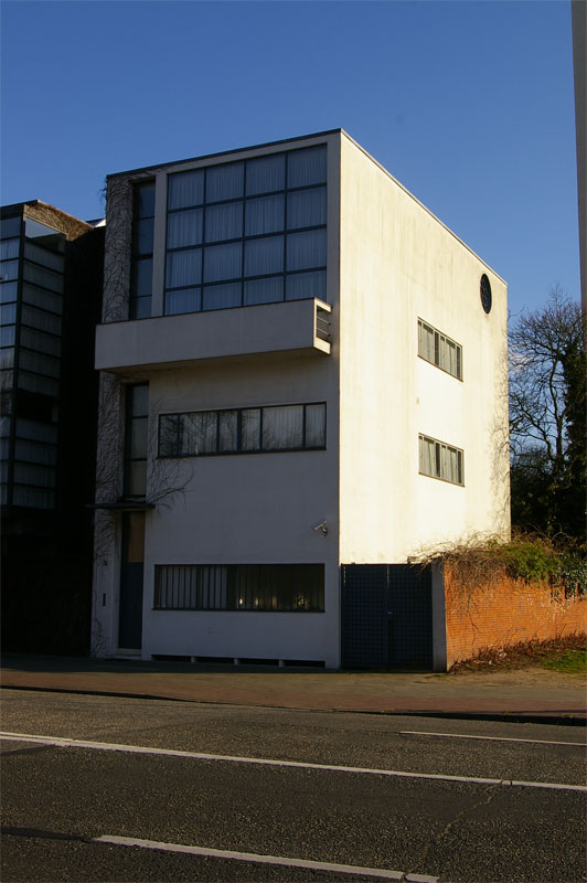 The only structure designed by Le Corbusier for Belgium is the Maison Guiette in Antwerp. It was built in 1926 as the house and studio for painter René Guiette.